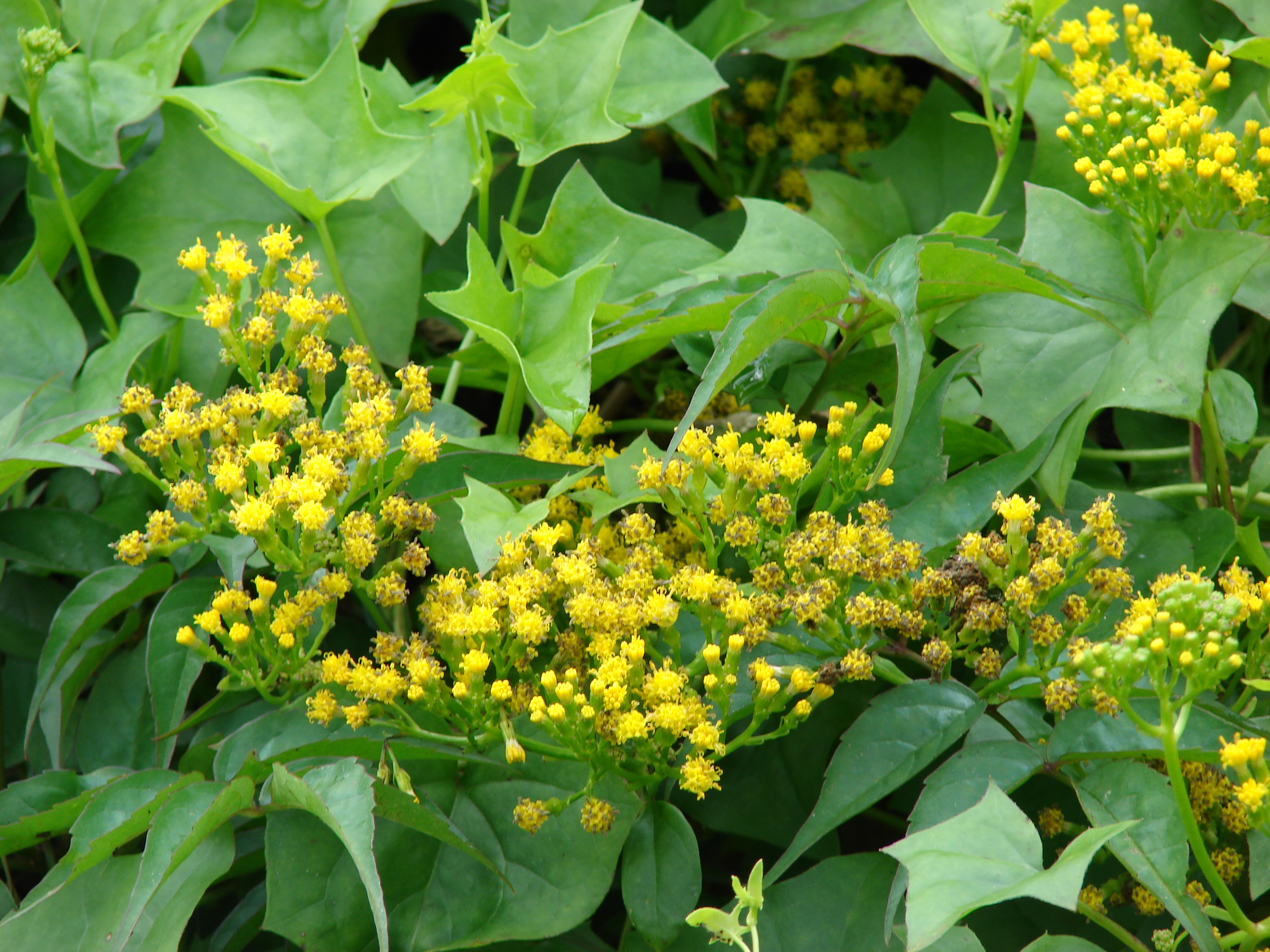 Delairea odorata (flowers and leaves). Location: Maui, Kula